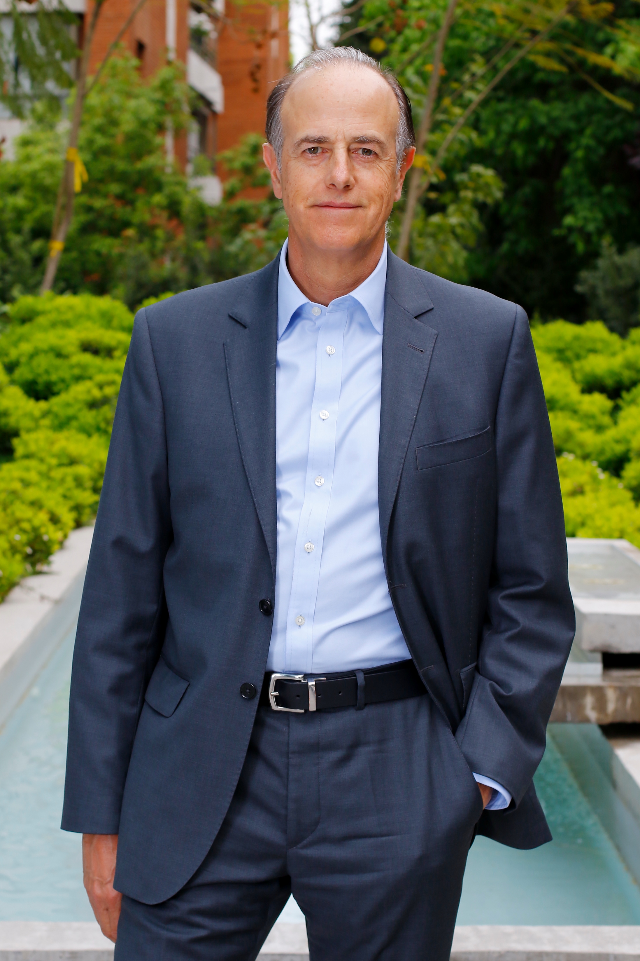 Daniel Fernández